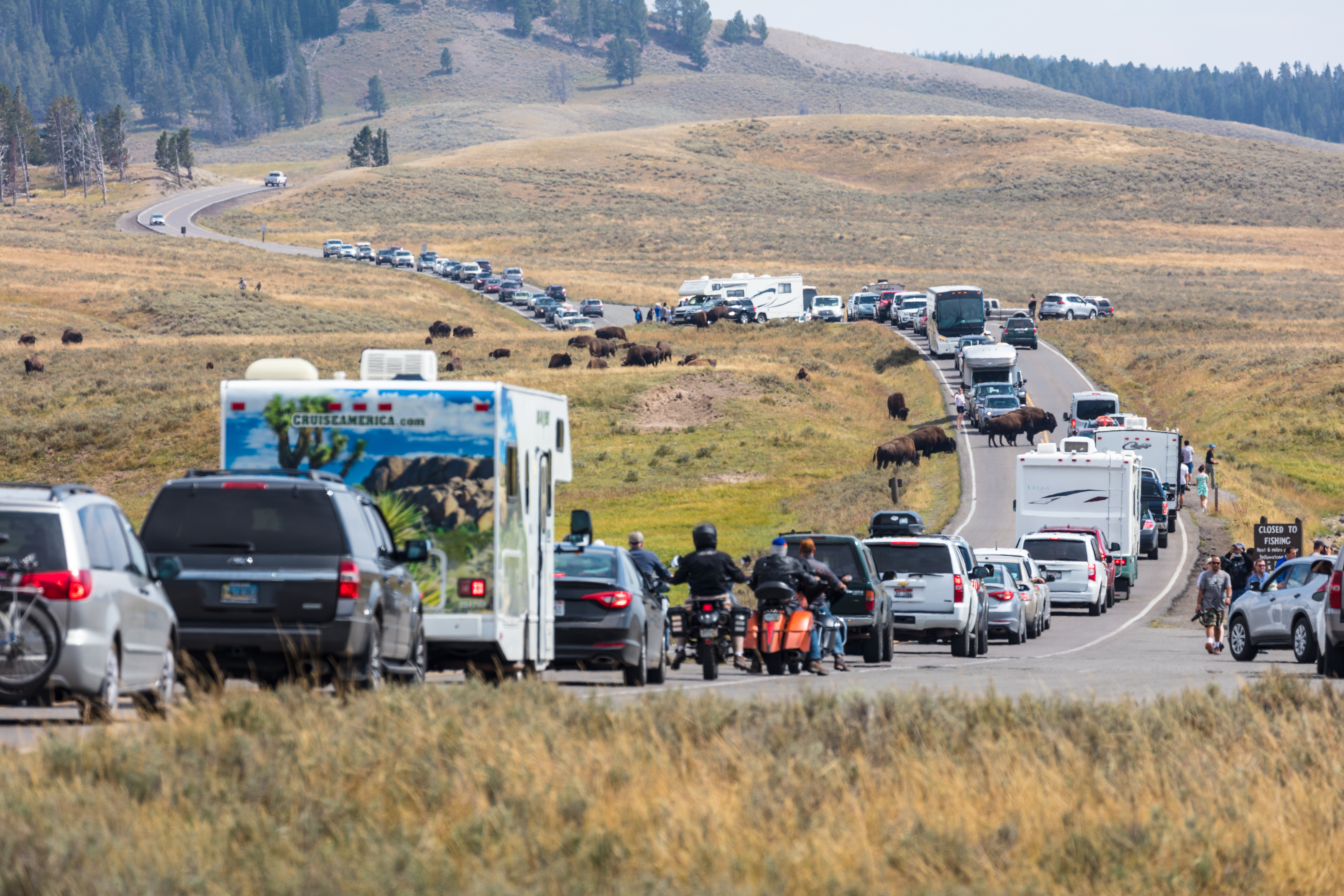 Traffic is stopped both directions for bison which are crossing the road. Bison Jam in Hayden Valley Keywords: hayden valley; jacob w. frank; wyoming; ynp; yellowstone; yellowstone national park; bison; cars; landscape; roads; summer; traffic; visitation challenges; 20170825-jwf-9315